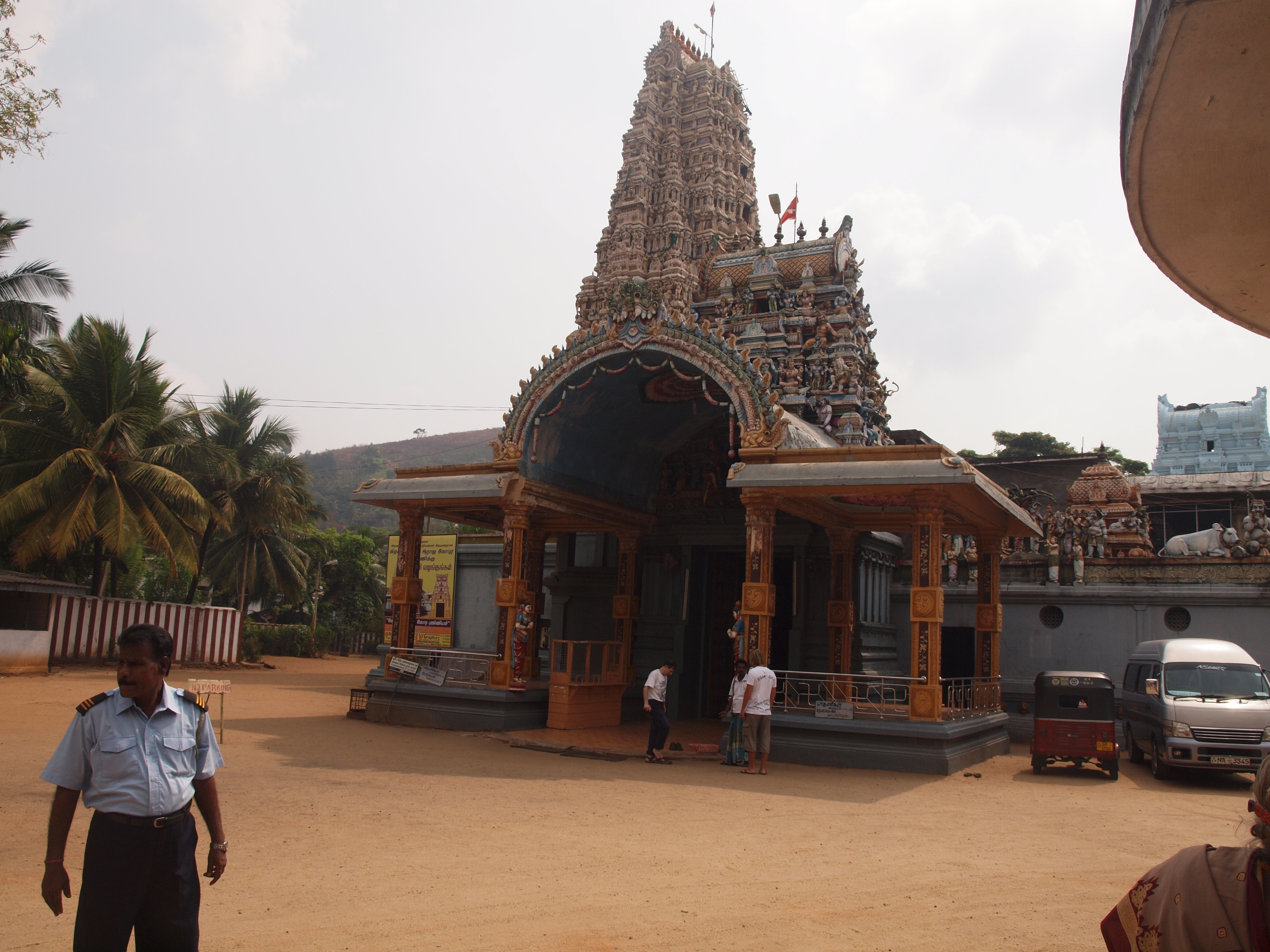 The hindi-temple in Matale, Sri Lanka